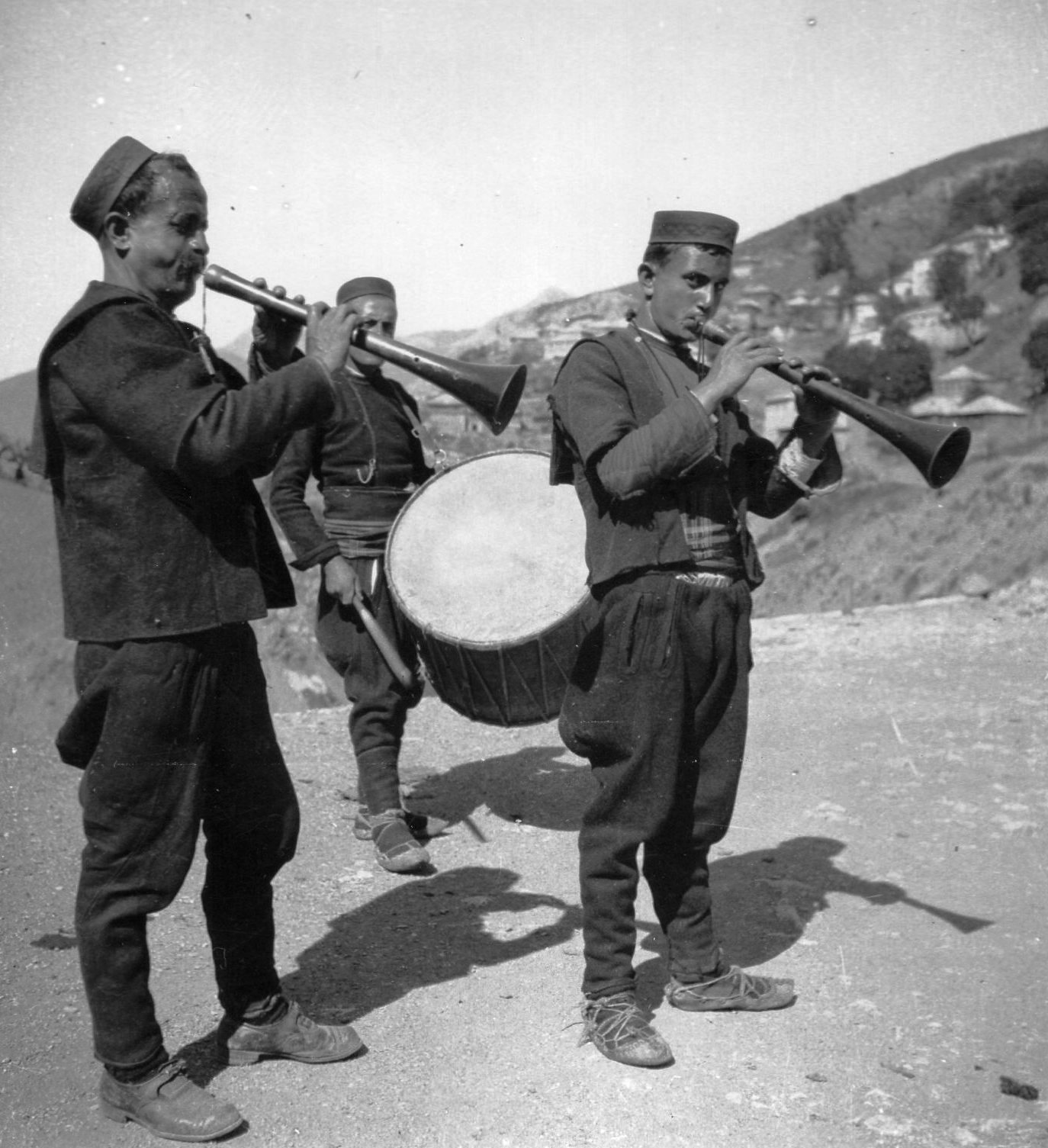 Gypsy musicians as a part of Galičnik Wedding Festival. 1930's This media file is produced by Wikipedian in Residence in Category:Wikipedian in Residence at DARM in 2016.